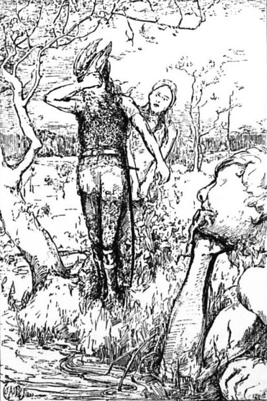 Odin at the Brook Mimir (the title in the book)